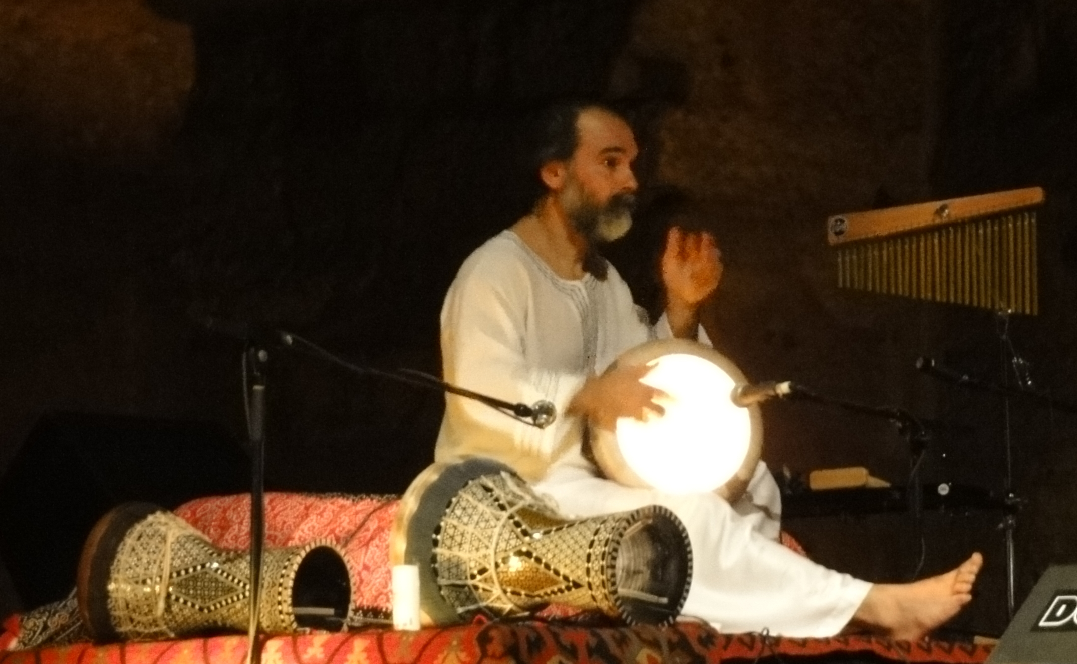 Misirli Ahmet at the Caz Festivali (i.e., Jazz Festival) in Istanbul (at Hagia Eirene) on 1st July 2011.